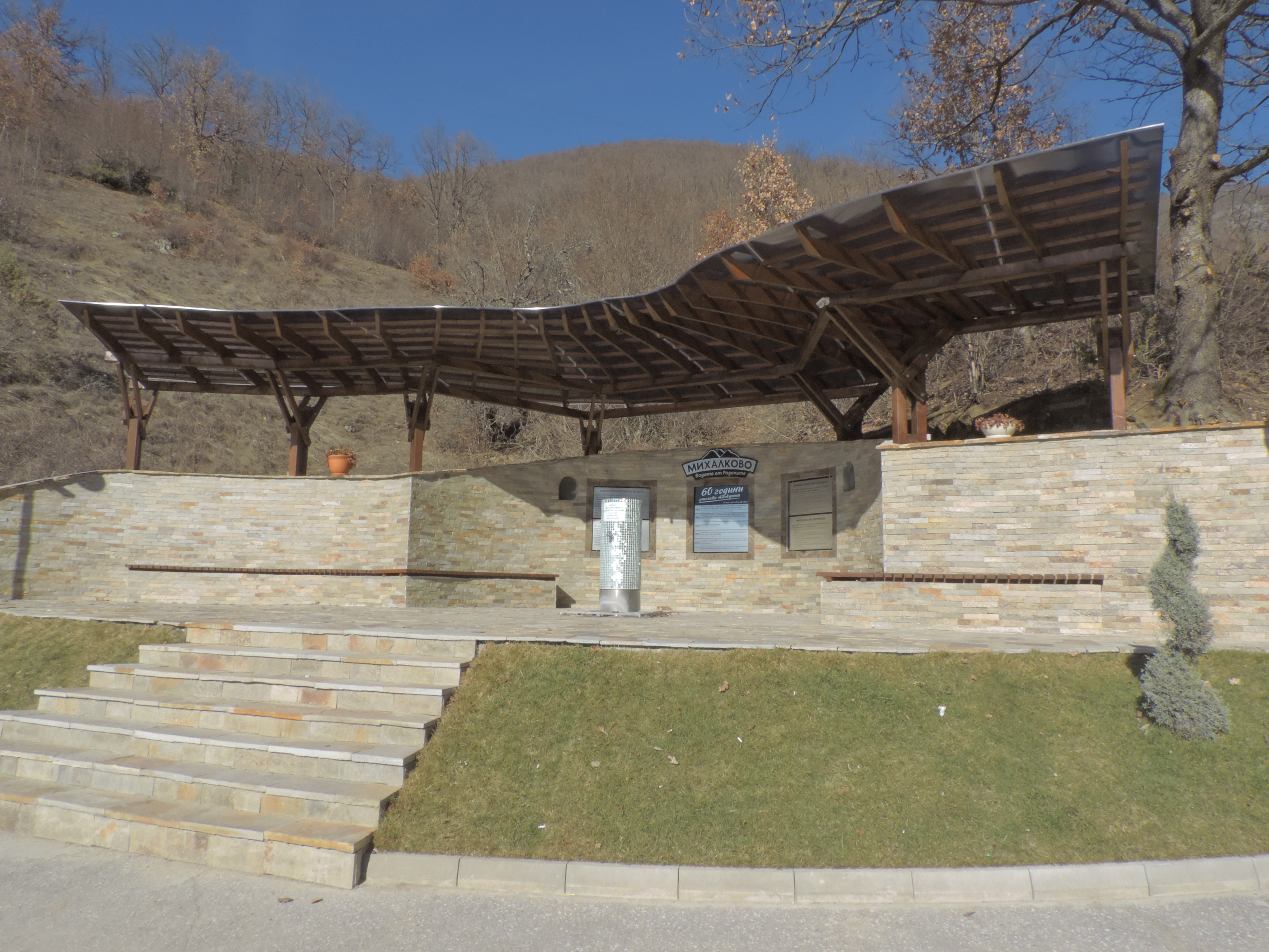 Village Mihalkovo, Devin Municipality, Smolyan Province, Bulgaria. Public water tap in front of the entrance to the mineral water spring Mihalkovo - the only source of naturally carbonated mineral water in Bulgaria.